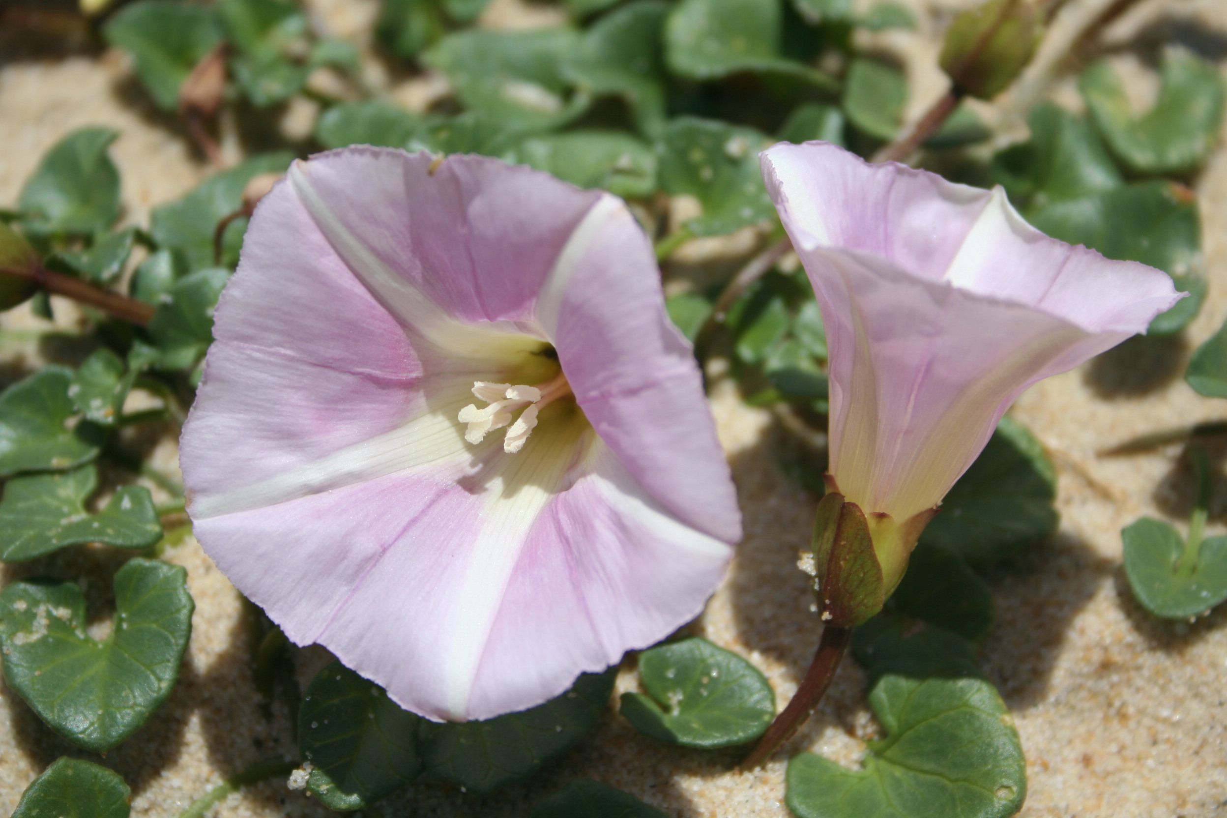 Calystegia soldanella (Sea Bindweed) on a sand dune near Messanges, France.